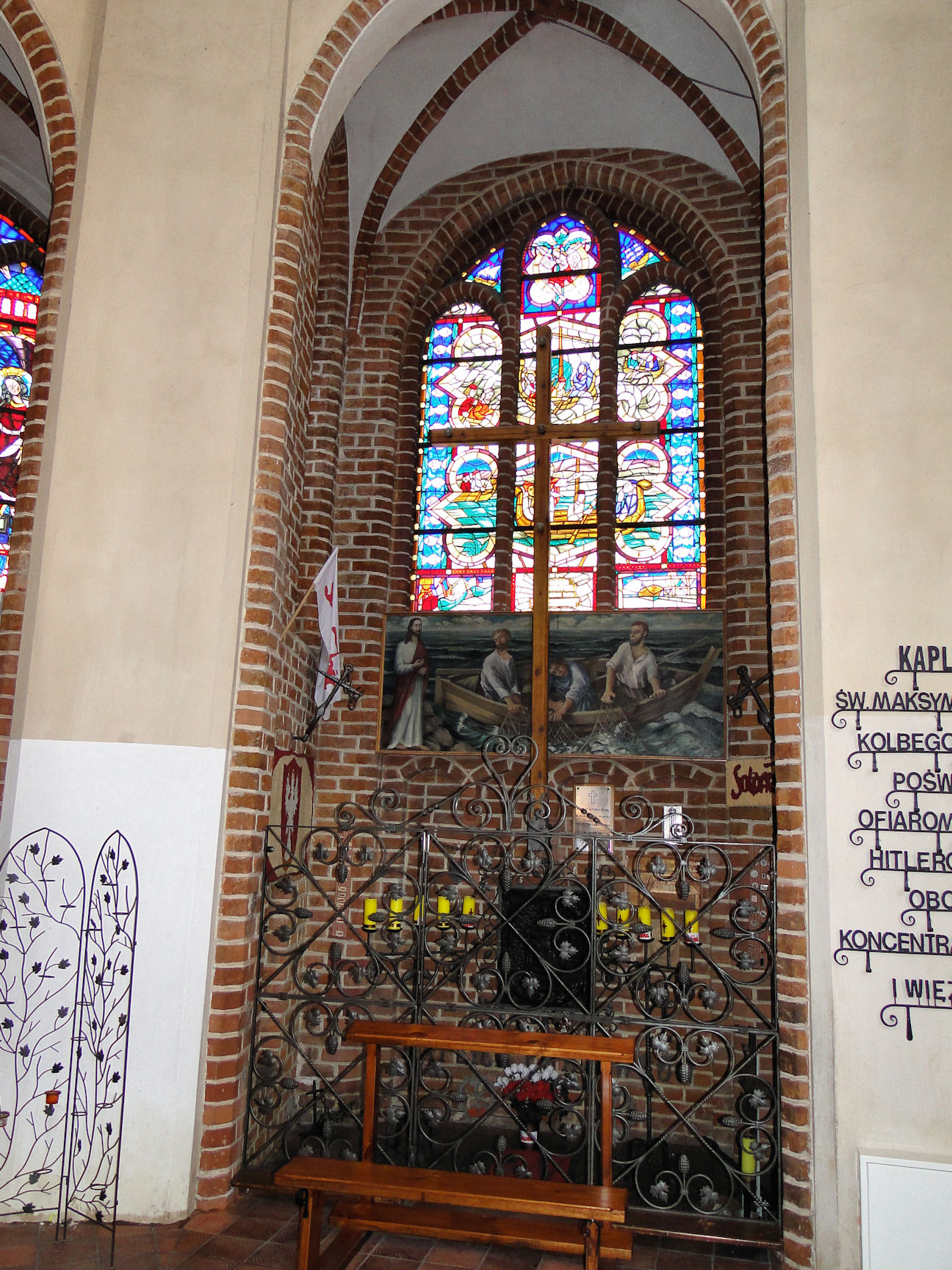 Interior of Szczecin Cathedral